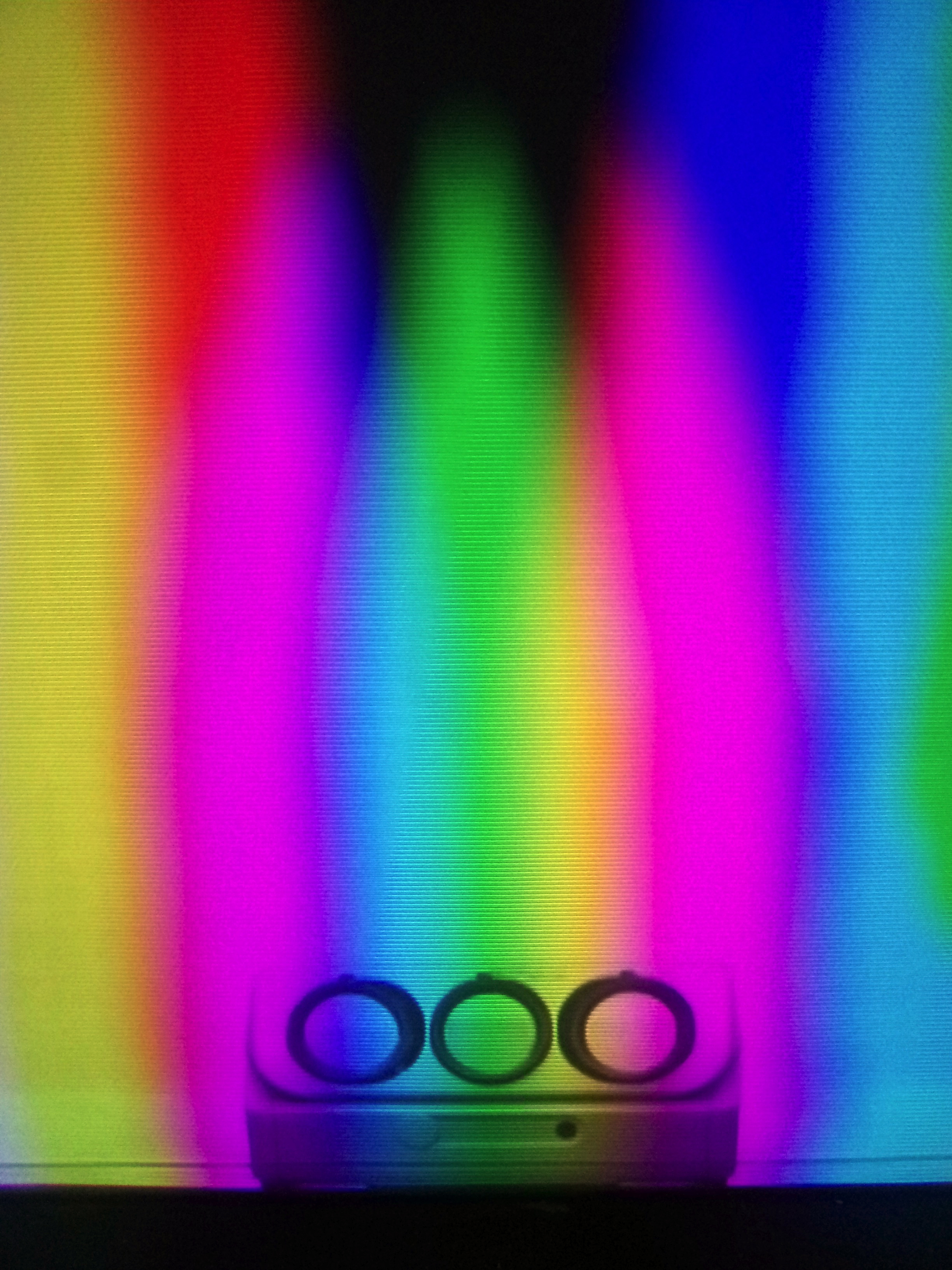 Interactive video installation.